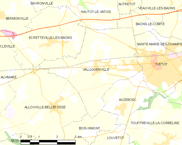 Map of French municipality Valliquerville